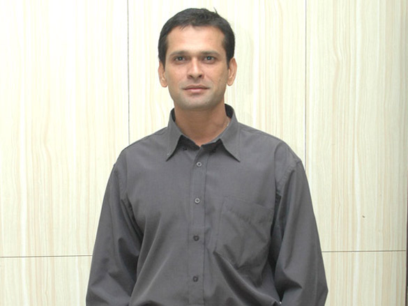 Sameer Dharmadhikari at the launch of ITA School of Performing Arts, Noida